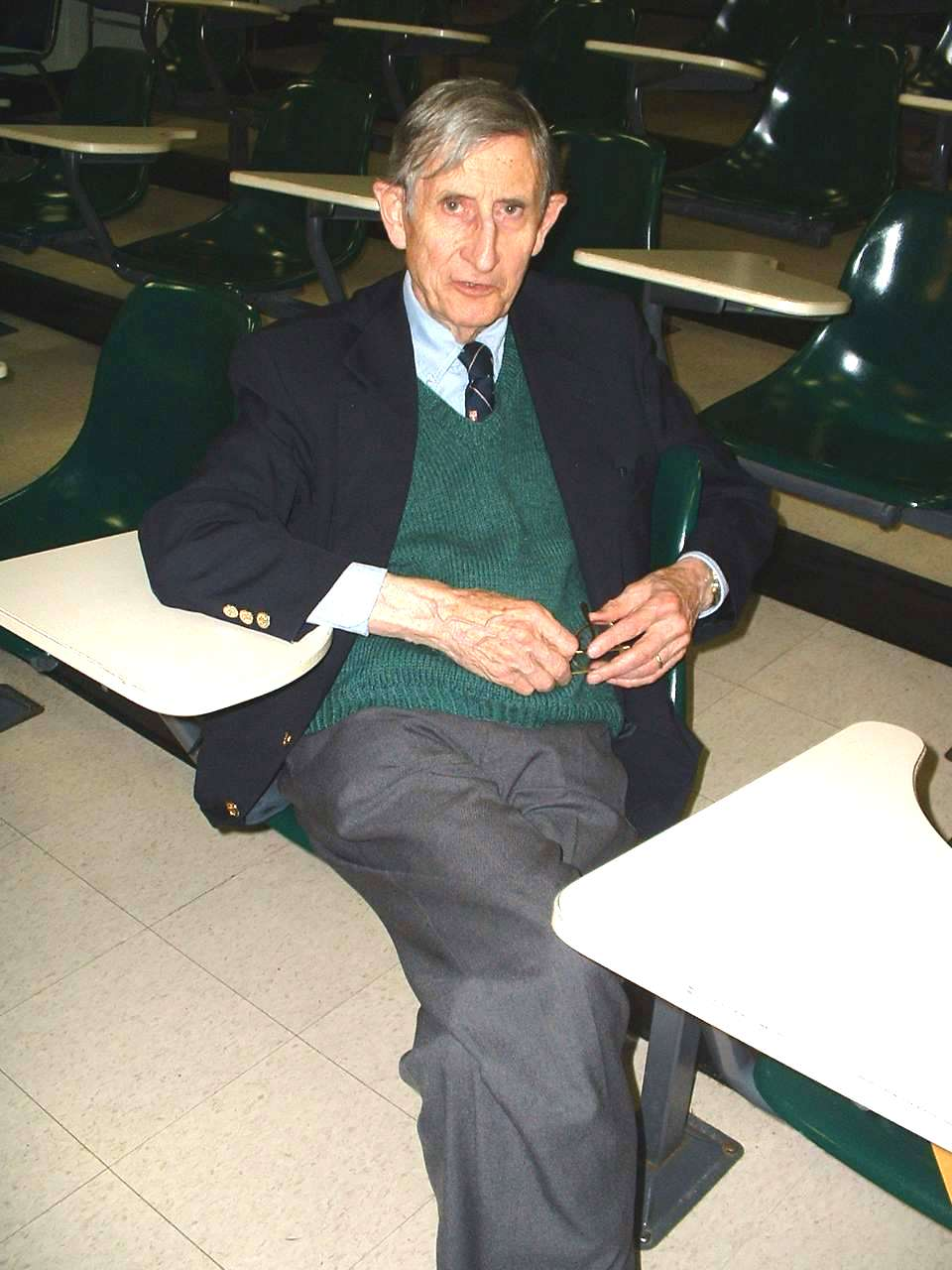 Freeman Dyson at Harvard University in 2004